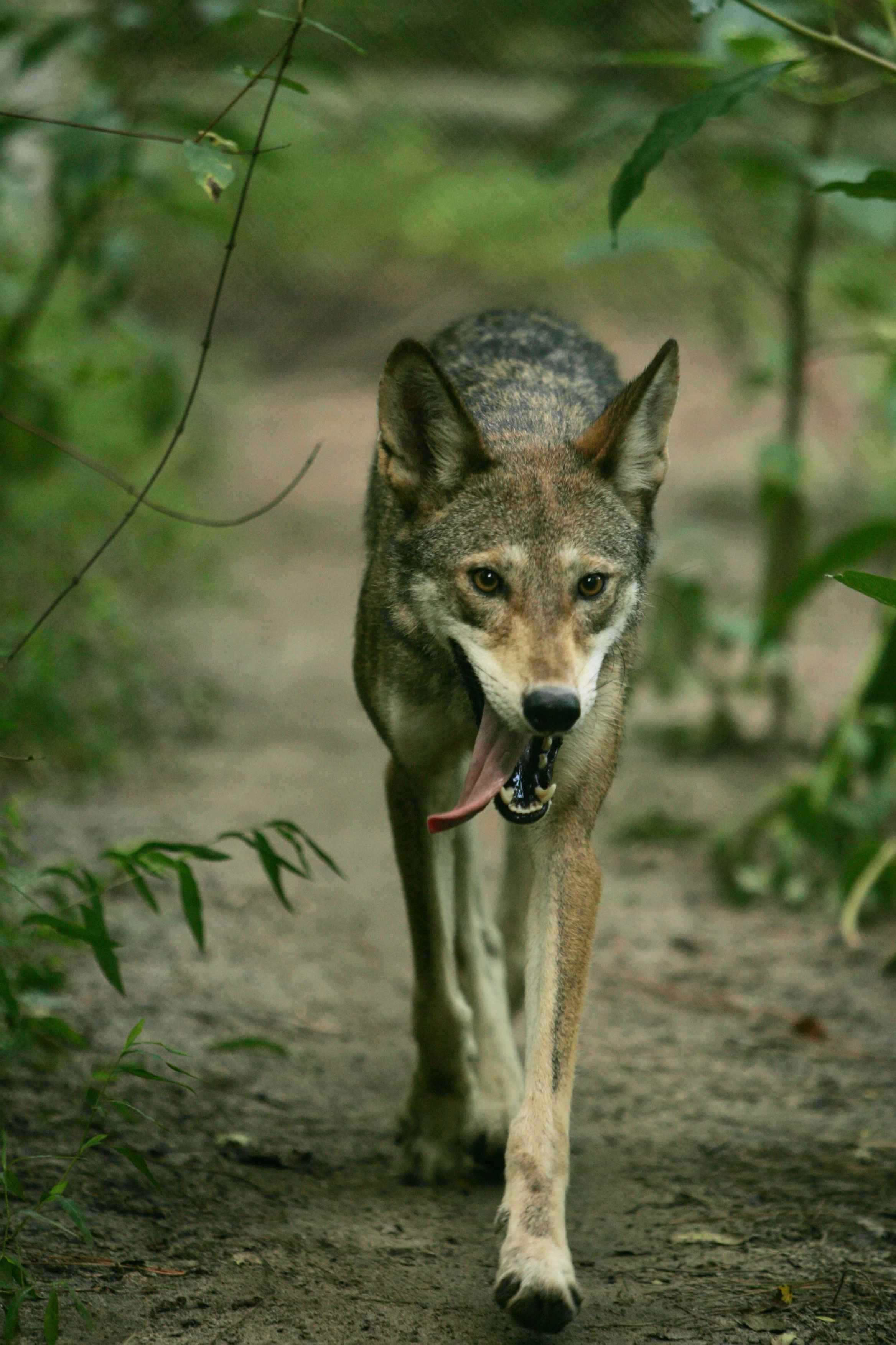 Image title: A walk in the woods Image from Public domain images website